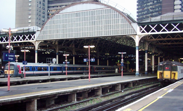 Terminal platforms at London Bridge station, viewed from the Down end of platforms 9/10. Two Class 456 EMUs stand at platform 14, while a Class 421 stands on platform 10.